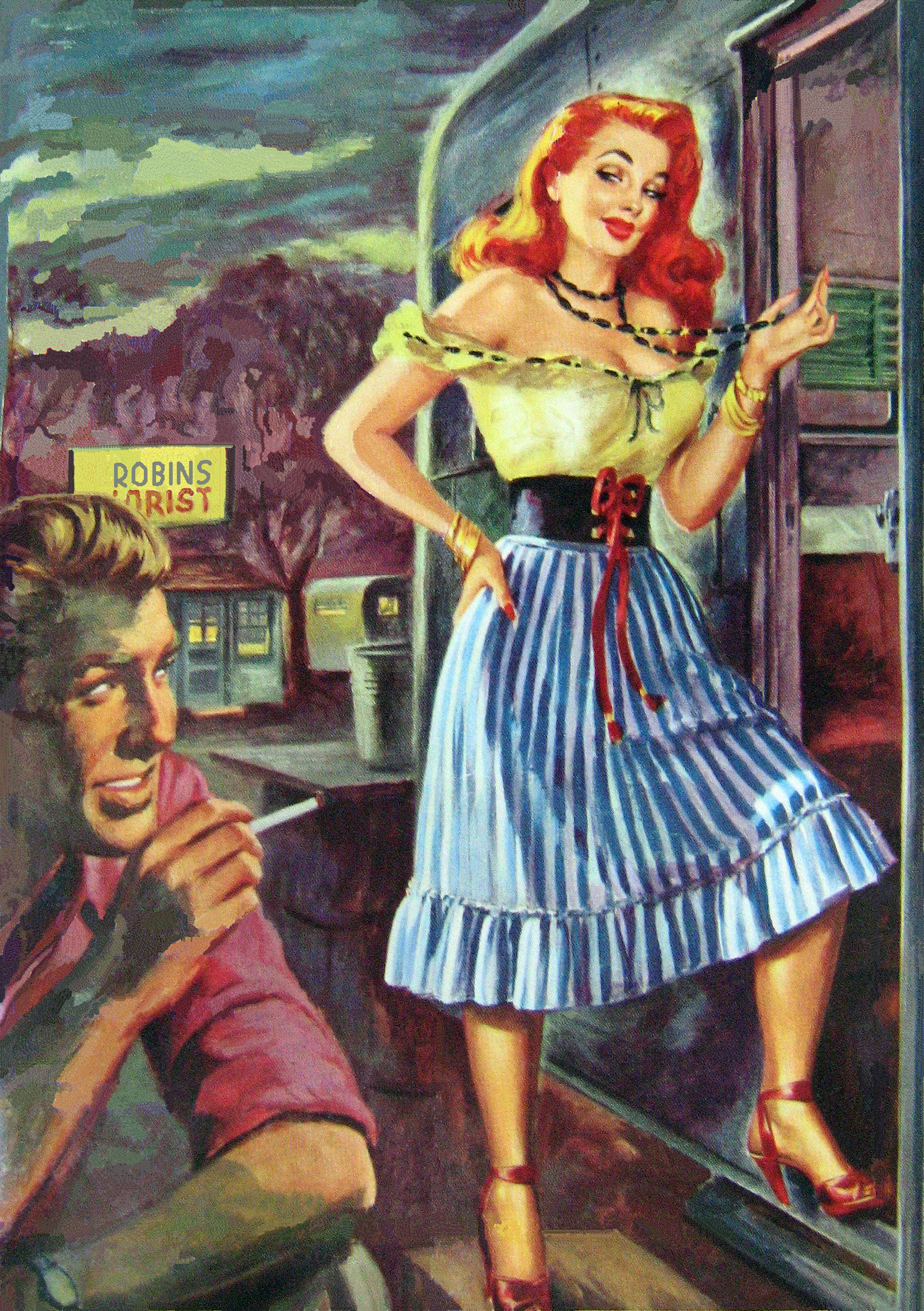 This painting by an American Artist appeared for the book cover of 'Tease The Wild Flame'. It's Gouache on board.